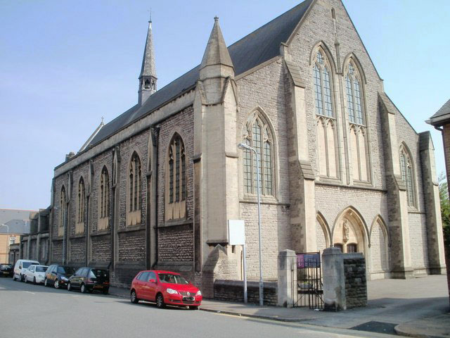 Church of St German of Auxerre, Adamsdown, Cardiff, designed by architects Bodley & Garner and built 1881-4